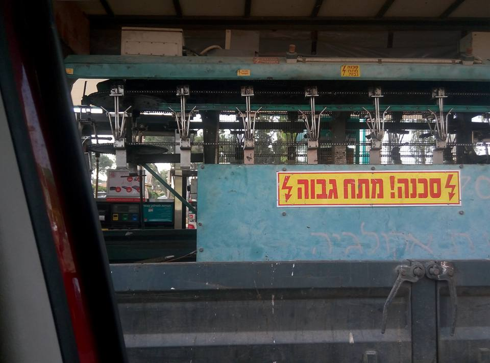 a truck for electrocution of spent laying hens